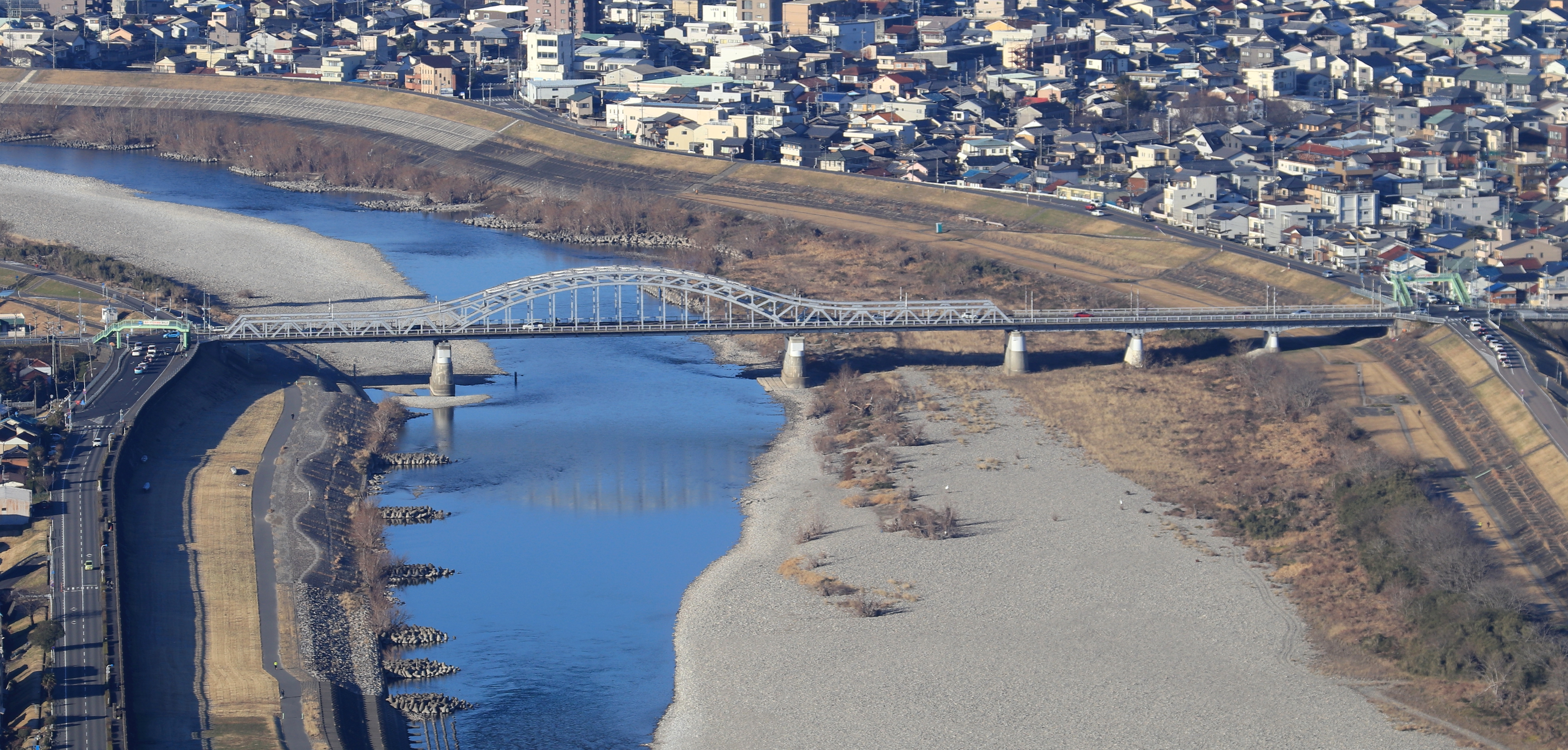 Chusetsu Bridge of Route 157 and Route 303 over Nagara River seen from Mount Kinka in Gifu City, Gifu Prefecture, Japan.